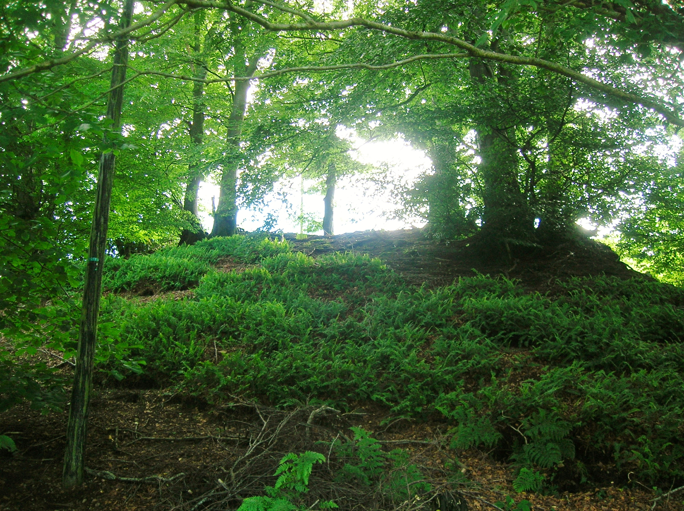 Detail of the Court Hill, Friars' Carse, Auldgirth, Dumfries & Galloway, Scotland